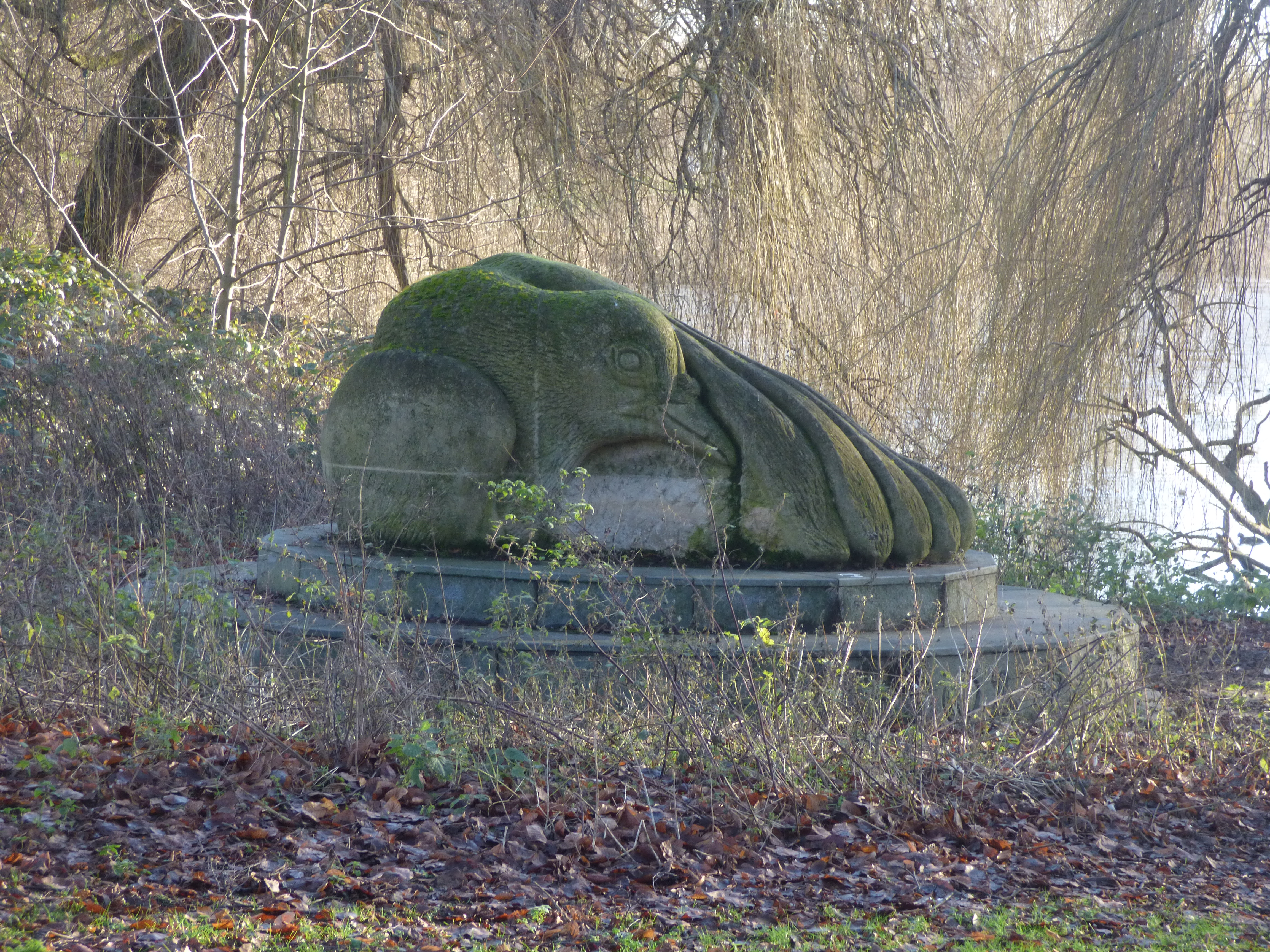 A walk around Brookvale Park on Christmas Day. This was just after 12pm. Following the walk around Witton Lakes Park. Dove of Peace sculpture near the north west corner of the lake. It was sculpted by the artist Michael Scheuermann.